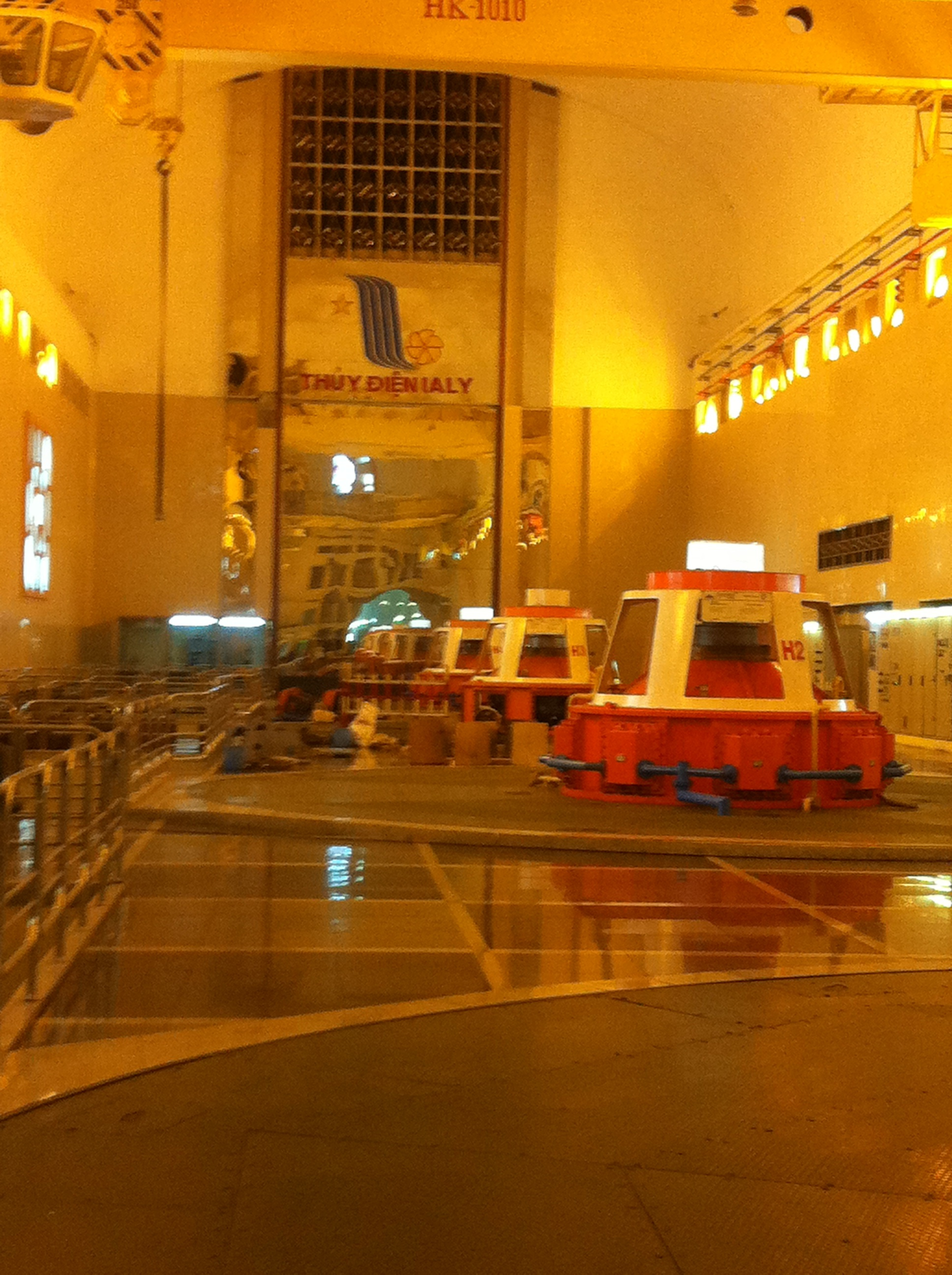 Yaly Hydroelectric Station in Gia Lai Province, Vietnam